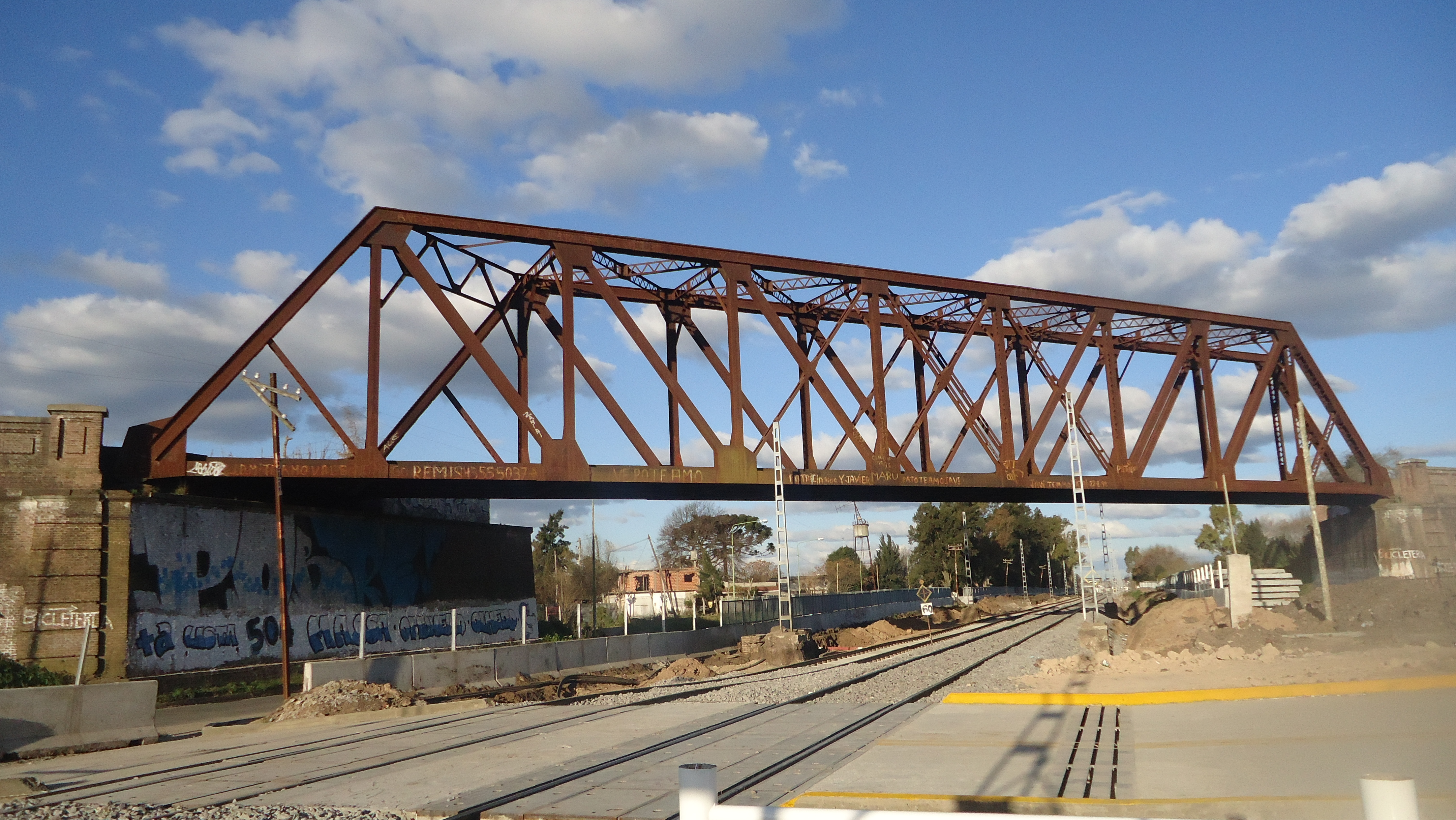 Old cross between the Ferrocarril Provincial de Buenos Aires (over the bridge) and the Ferrocarril General Roca (below) in Estanislao Severo Zeballos, Buenos Aires, Argentina.